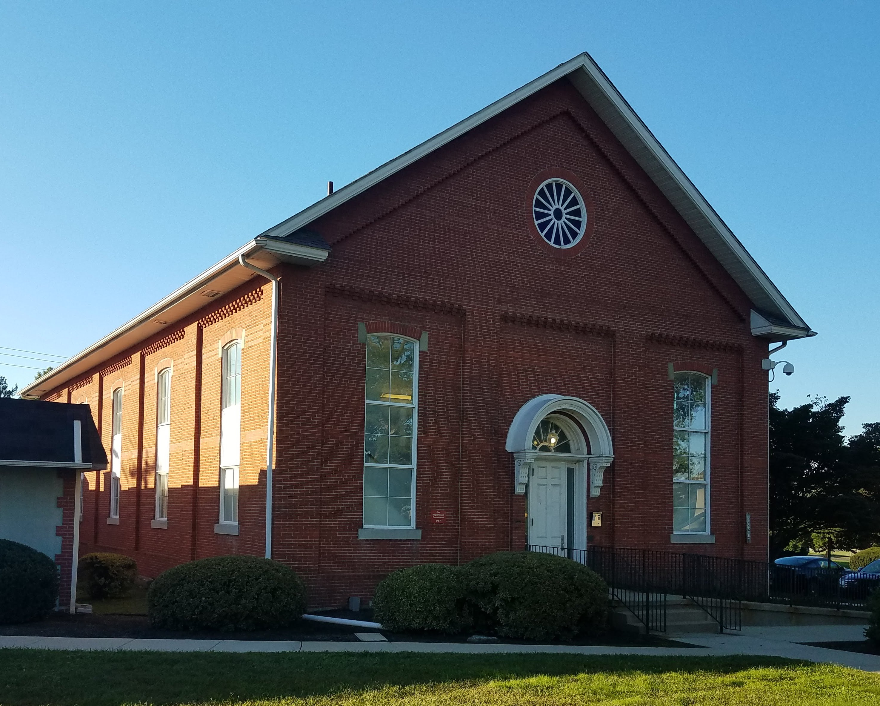 Crozer Hall at Crozer Theological Seminary in Upland, Pennsylvania. Photo taken in Oct. 2018.